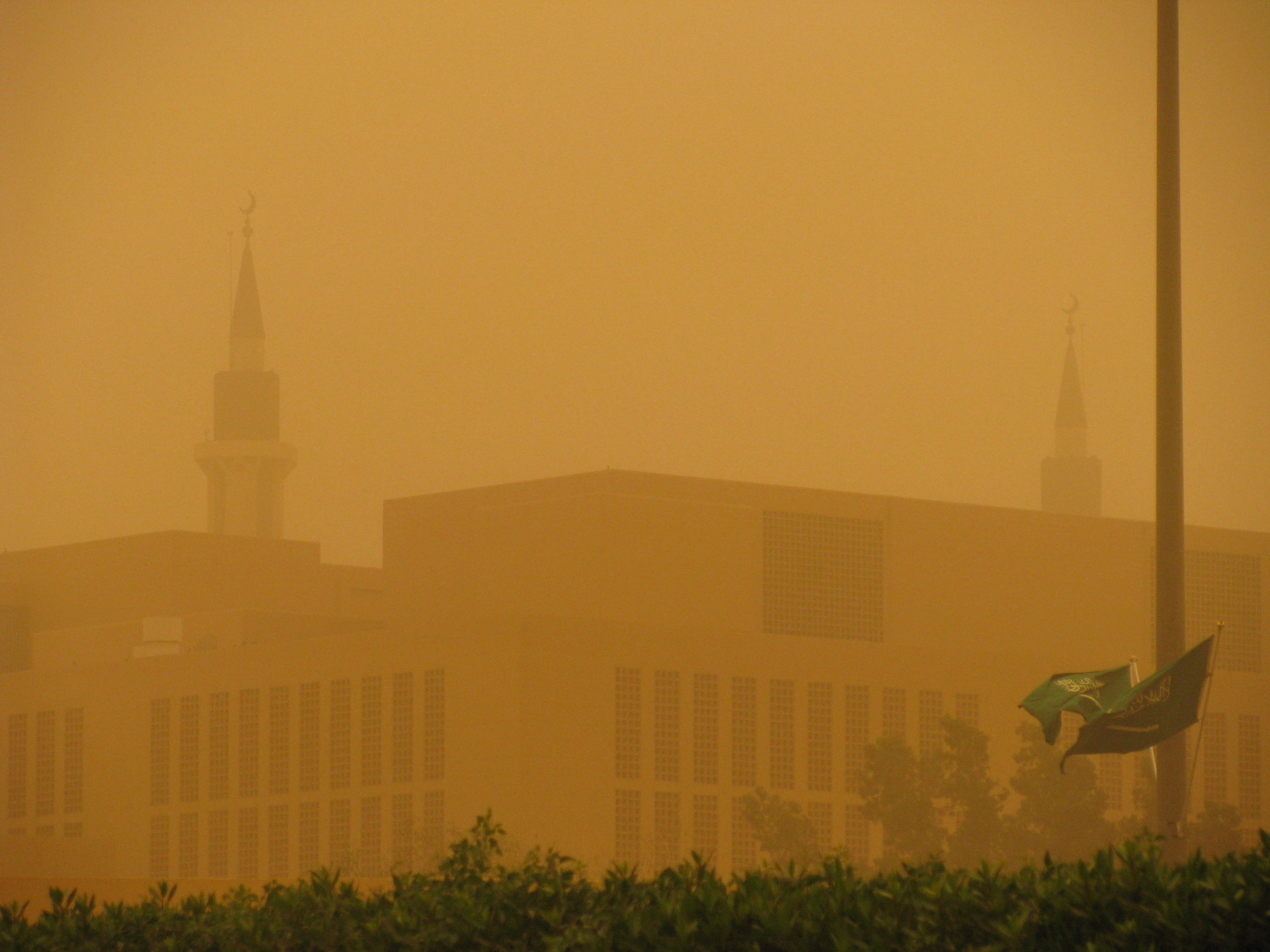 Another view of Imam University, this time with the Saudi flags.